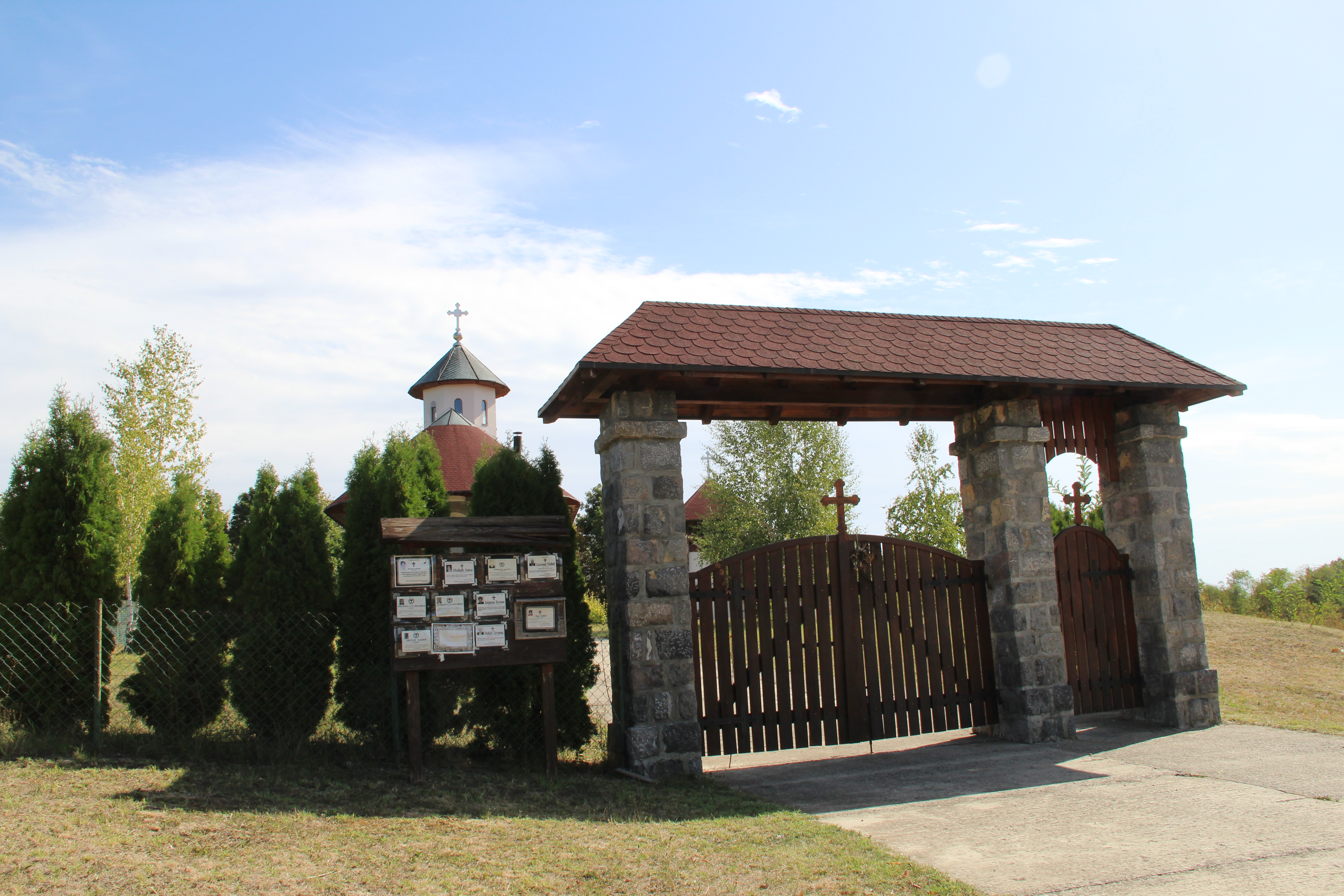 Dupljaj village - Municipality of Valjevo - Western Serbia - Local church 1